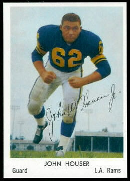 A 1959 promotional image of Los Angeles Rams player John Houser.